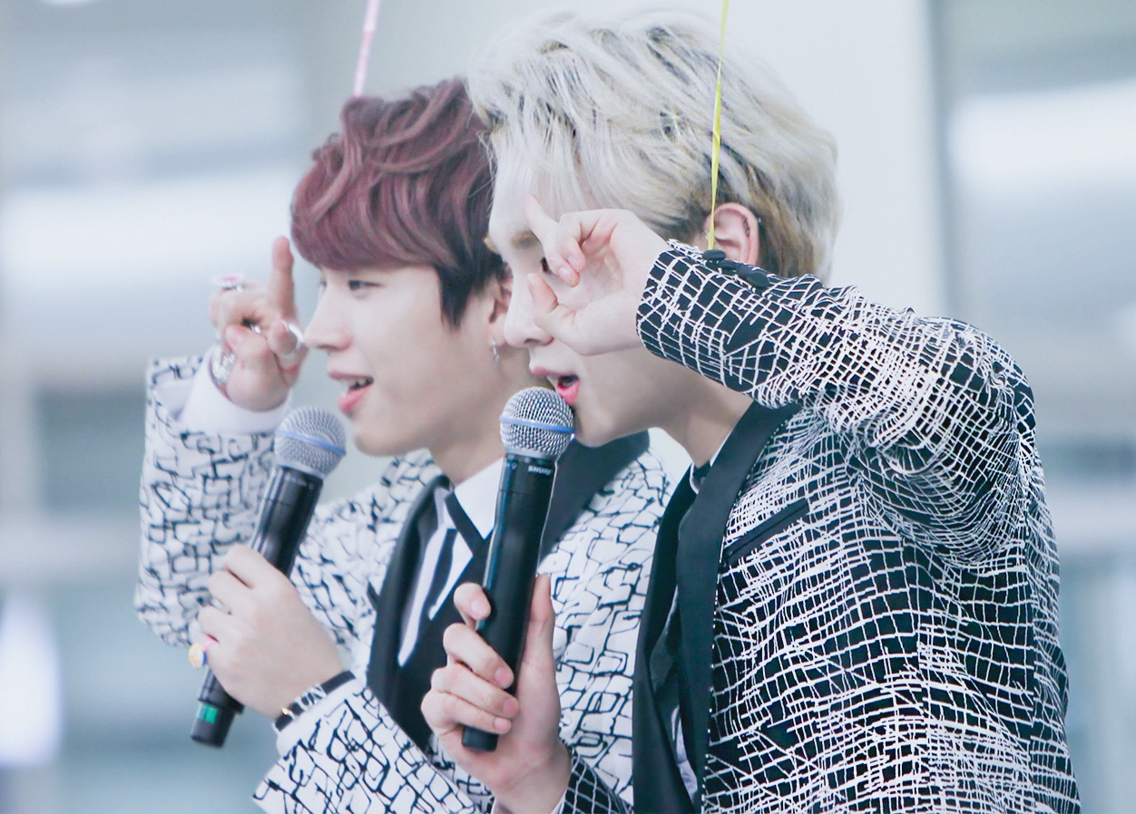 Toheart at the Yeouido on March 21, 2014.